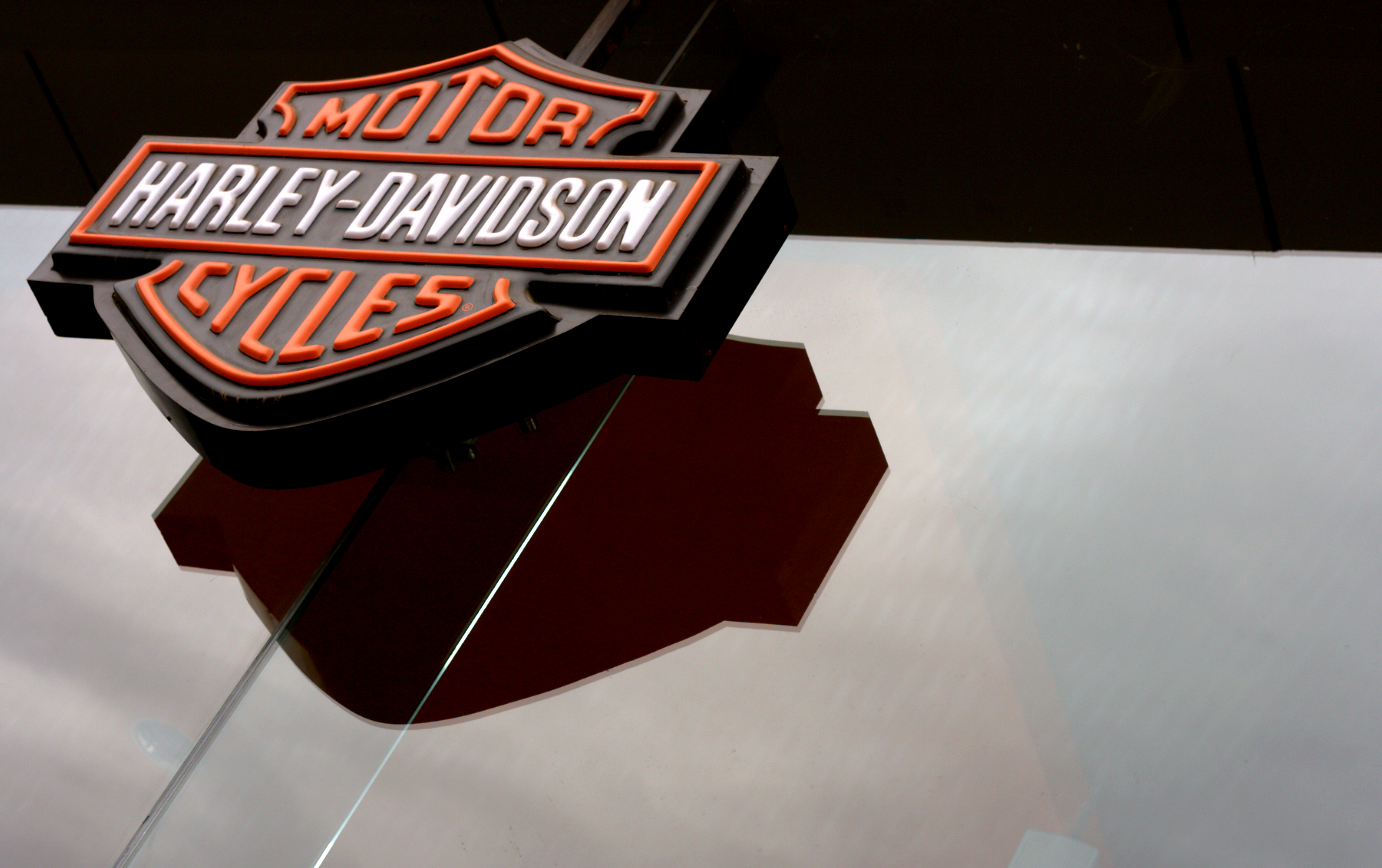 Glass Door of Harley Davidson Showroom with the Harley Shield. Hyderabad, AP, India